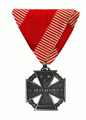 Kart Cross of Austria 1917